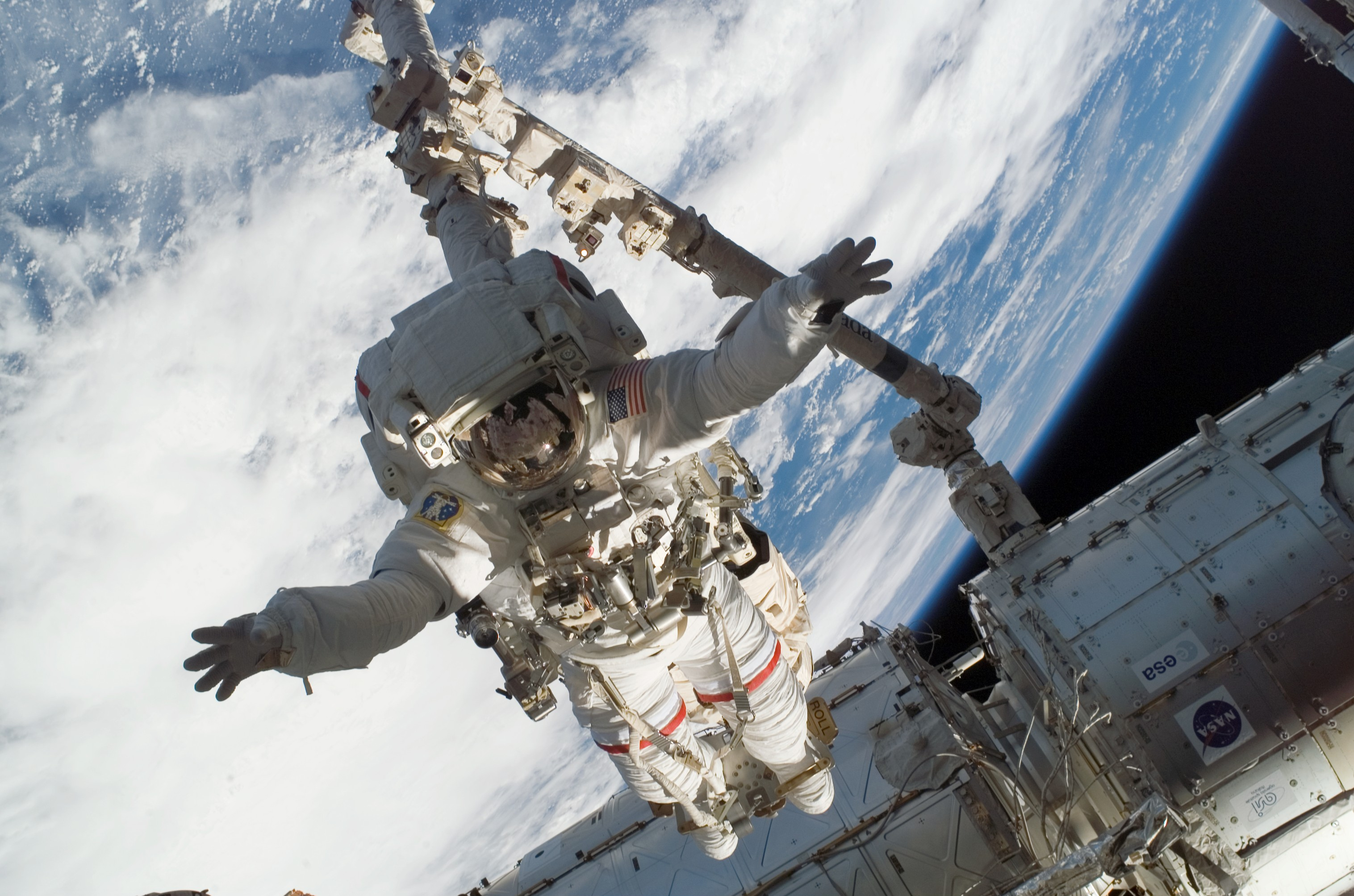 Anchored to a Canadarm2 mobile foot restraint, astronaut Rick Linnehan, STS-123 mission specialist, participates in the mission's first scheduled session of extravehicular activity (EVA) as construction and maintenance continue on the International Space Station. During the seven-hour and one-minute spacewalk, Linnehan and astronaut Garrett Reisman (out of frame), Expedition 16 flight engineer, prepared the Japanese logistics module-pressurized section (JLP) for removal from Space Shuttle Endeavour's payload bay; opened the Centerline Berthing Camera System on top of the Harmony module; removed the Passive Common Berthing Mechanism and installed both the Orbital Replacement Unit (ORU) tool change out mechanisms on the Canadian-built Dextre robotic system, the final element of the station's Mobile Servicing System.